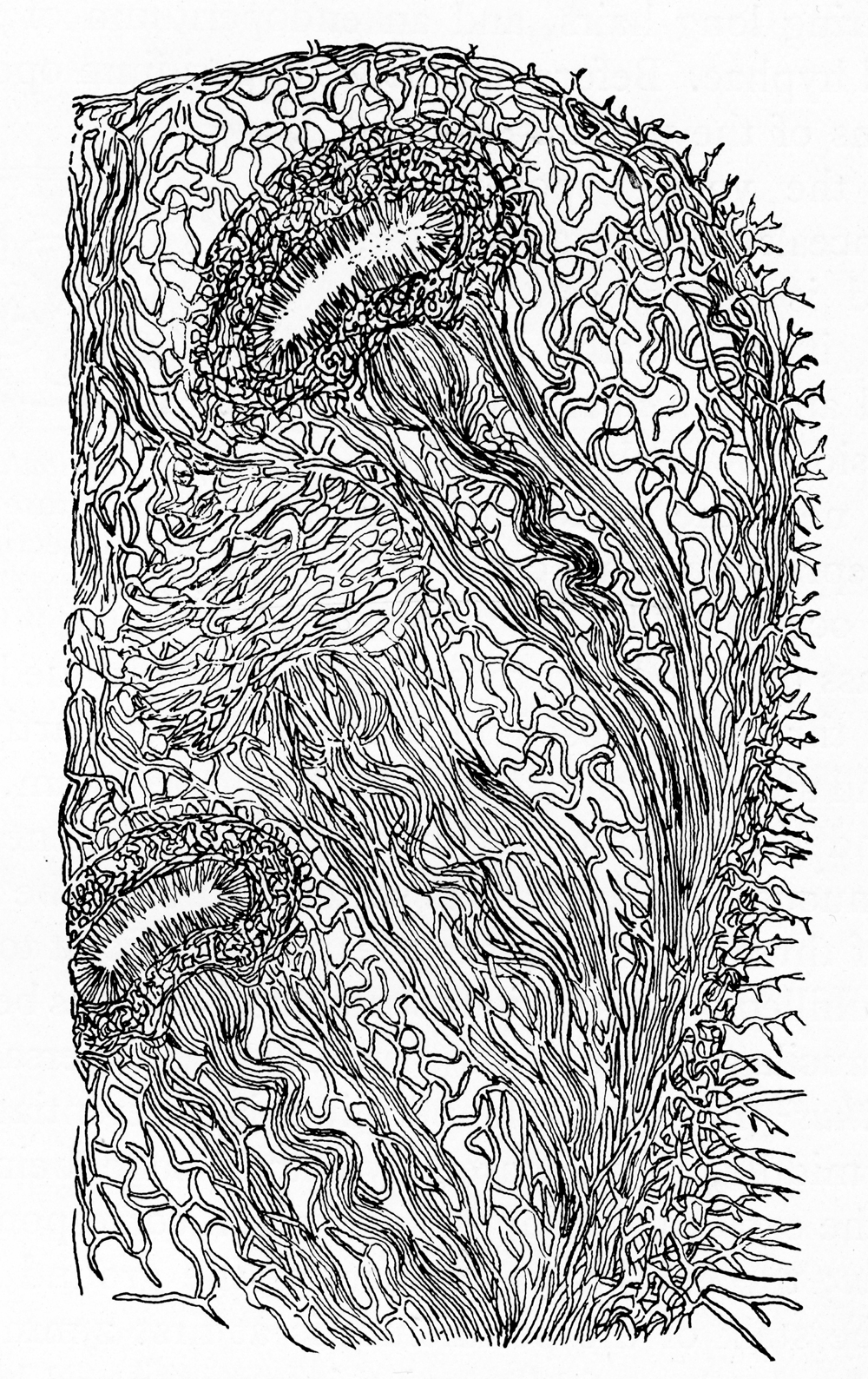 Crucibulum vulgare; section through part of a young sporophore, showing the developing peridiola." (Note: Crucibul vulgare is now know as C. laeve.)